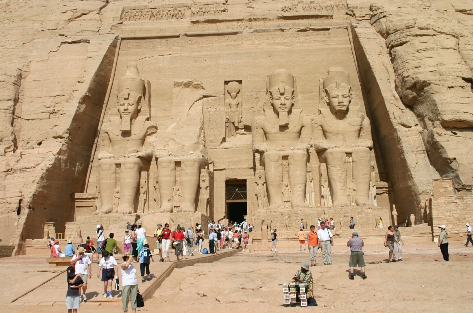 Temple of Ramses II @ Abu Simbel